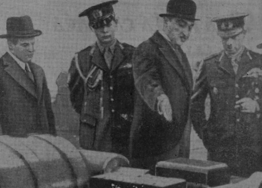 Industrialists Max Auschnitt (first from left) and Nicolae Malaxa (third from left), with Carol II of Romania (on the right) and his son, the Great Voivode Michael I (between Auschnitt and Malaxa) at Reșița Iron Domains; Malaxa is showcasing factory products.